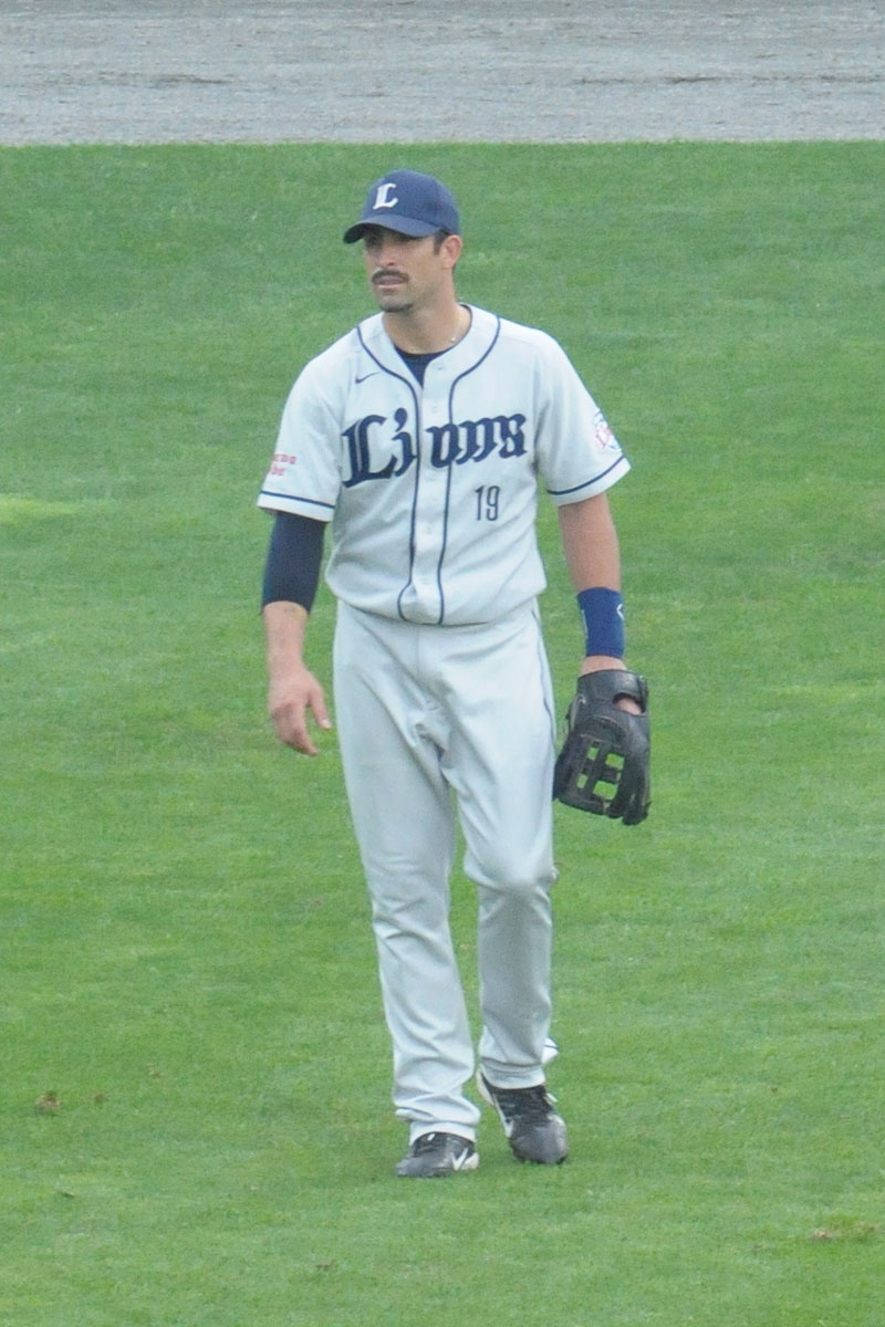 Ryan Spilborghs, outfielder of the Saitama Seibu Lions, at Akita Prefectural Baseball Stadium.